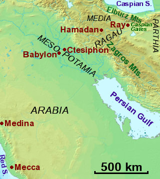 Ray, Iran in its geographical context before the Arab conquest (642 CE)